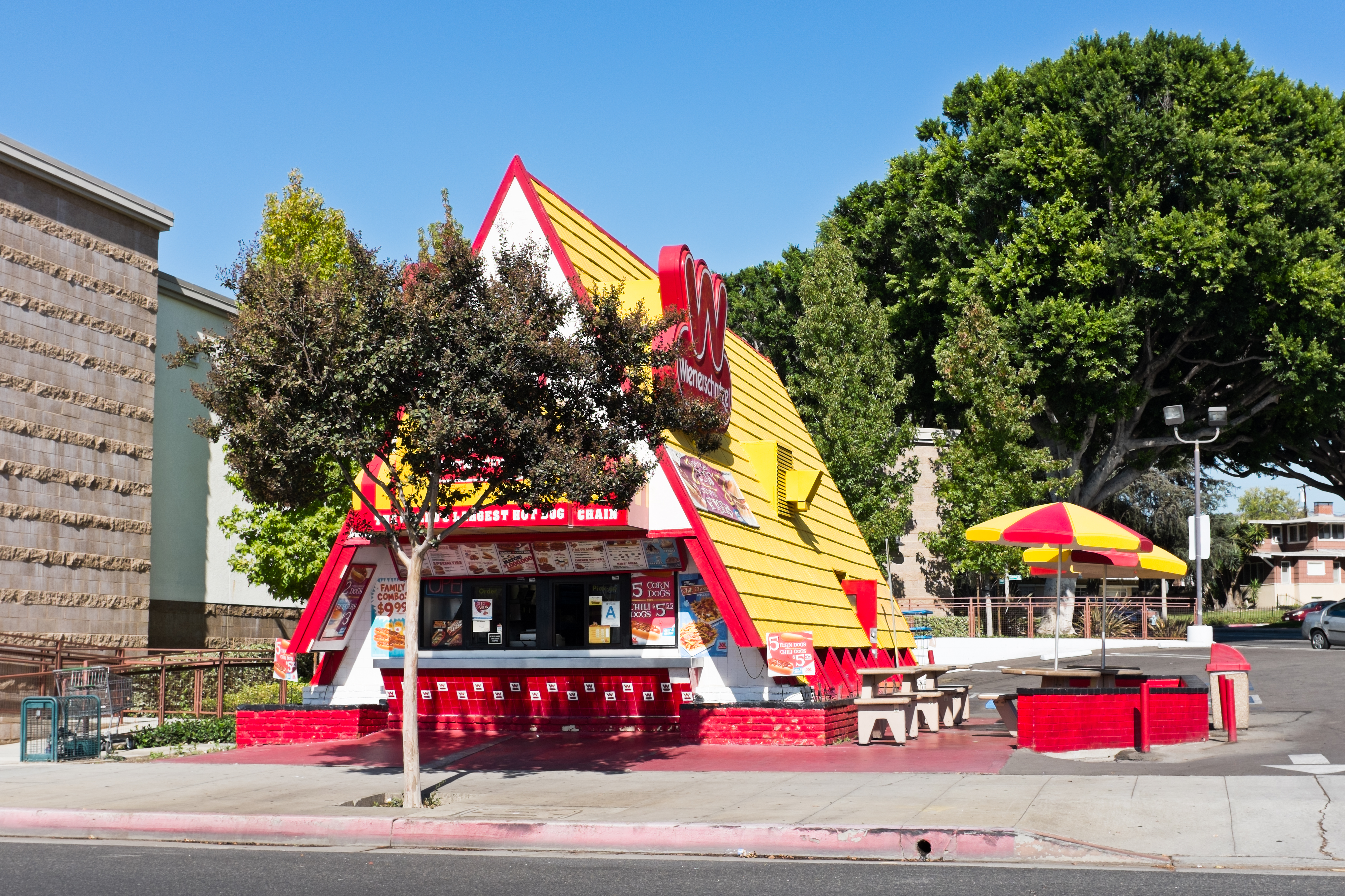 Weinerschnitzel Hot Dogs in Whittier California (slightly better pic).